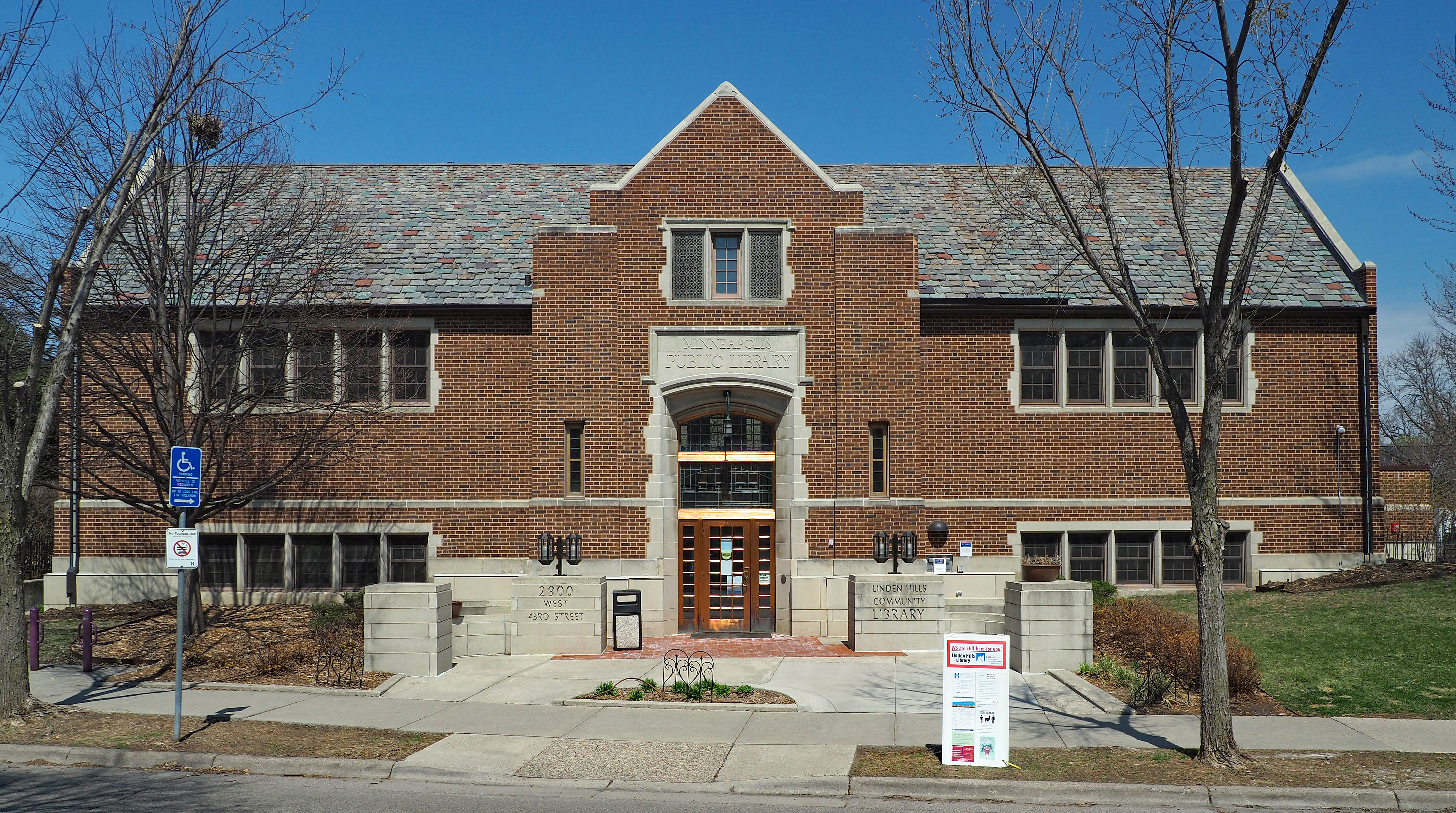 Linden Hills Library, 2900 W 43rd St, Minneapolis, Minnesota, USA. Viewed from the south.